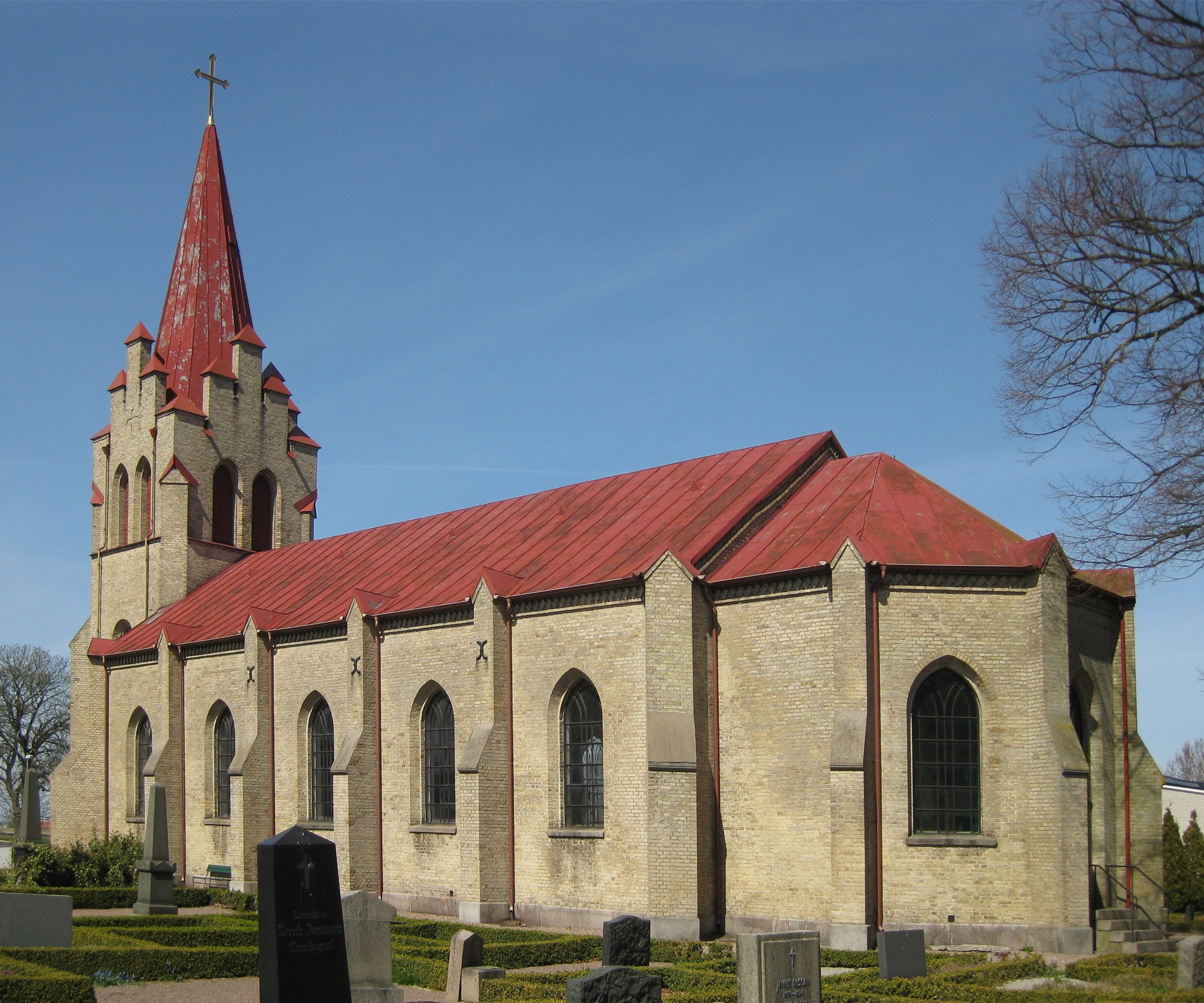 Örja church in Skåne, Sweden